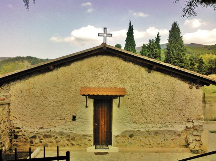 The old church of Saint George, built on the 16th century.